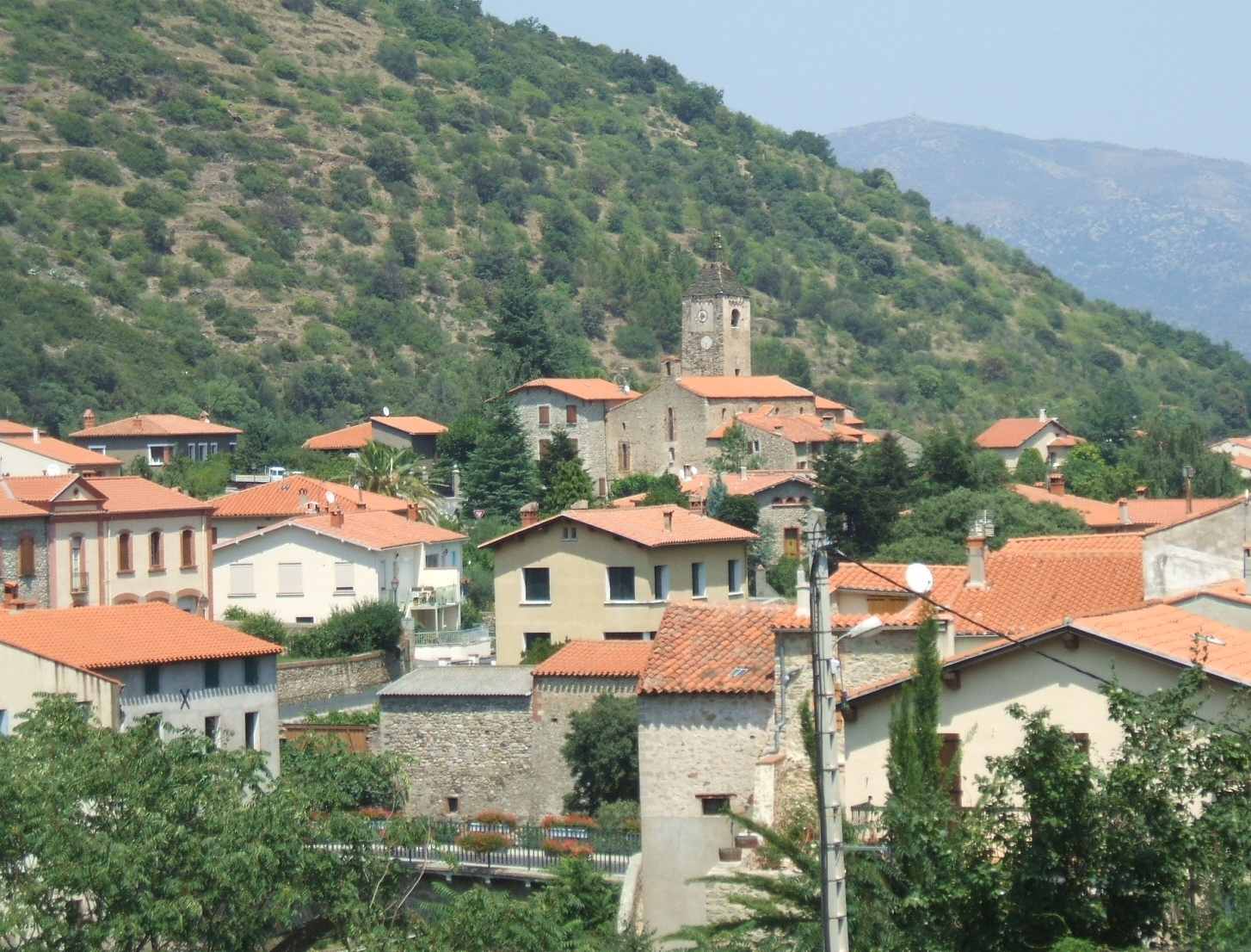 Ria-Sirach (département of Pyrénées-Orientales, Languedoc-Roussillon région, France) : Saint-Vincent church of Ria